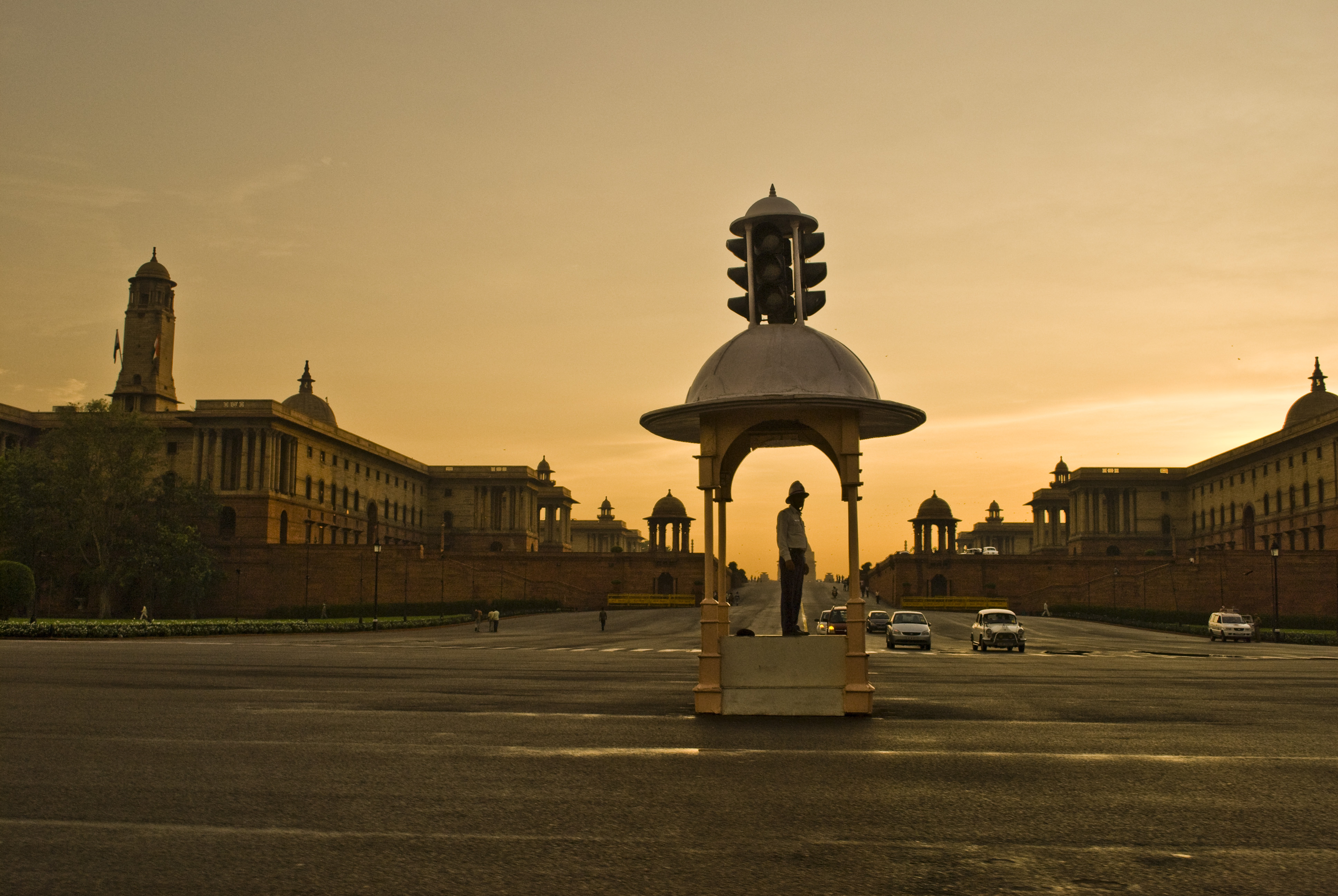 Vijay Chowk at Rajpath, with Secretariat Buildings, North and South Block, in the background, New Delhi.